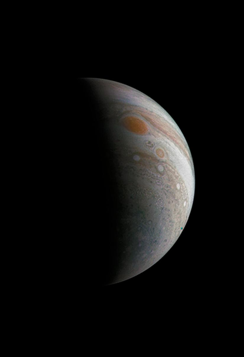 This image of a crescent Jupiter and the iconic Great Red Spot was created by a citizen scientist (Roman Tkachenko) using data from Juno's JunoCam instrument. You can also see a series of storms shaped like white ovals, known informally as the "string of pearls." Below the Great Red Spot a reddish long-lived storm known as Oval BA is visible. The image was taken on Dec. 11, 2016 at 2:30 p.m. PST (5:30 p.m. EST), as the Juno spacecraft performed its third close flyby of Jupiter. At the time the image was taken, the spacecraft was about 285,100 miles (458,800 kilometers) from the planet. JunoCam's raw images are available at for the public to peruse and process into image products. JPL manages the Juno mission for the principal investigator, Scott Bolton, of Southwest Research Institute in San Antonio. Juno is part of NASA's New Frontiers Program, which is managed at NASA's Marshall Space Flight Center in Huntsville, Alabama, for NASA's Science Mission Directorate. Lockheed Martin Space Systems, Denver, built the spacecraft. Caltech in Pasadena, California, manages JPL for NASA. More information about Juno is online at and